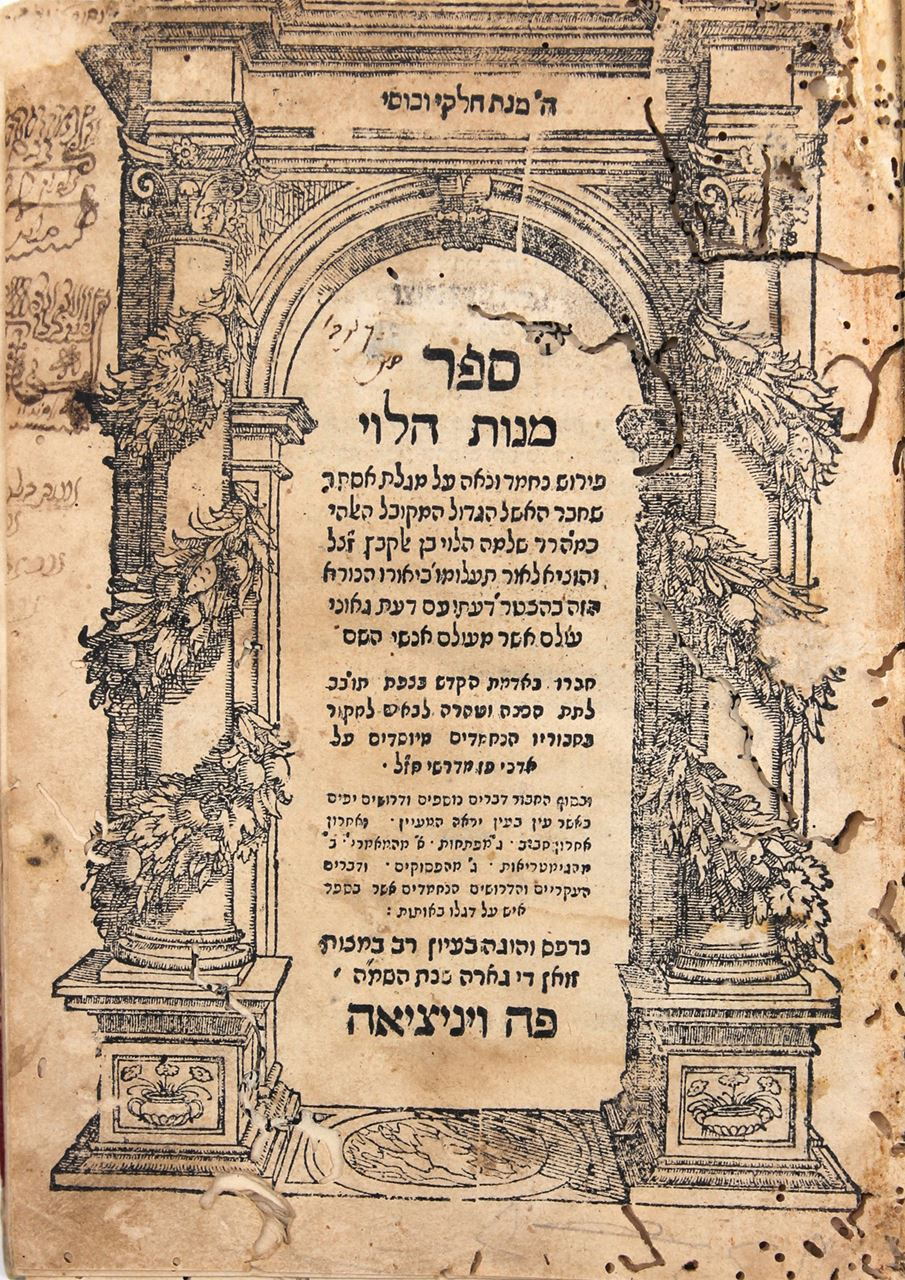 Manot HaLevi